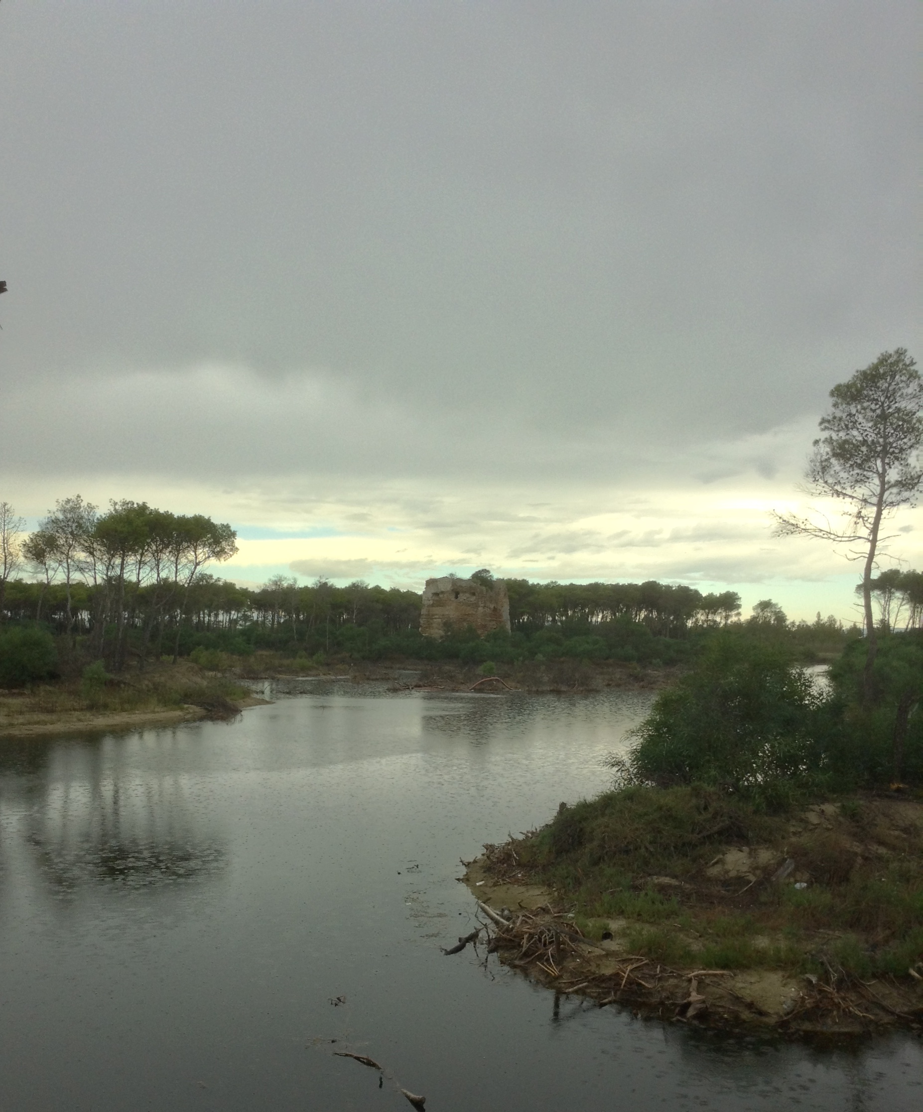 Torre Mattoni, watchtower, built about 1570